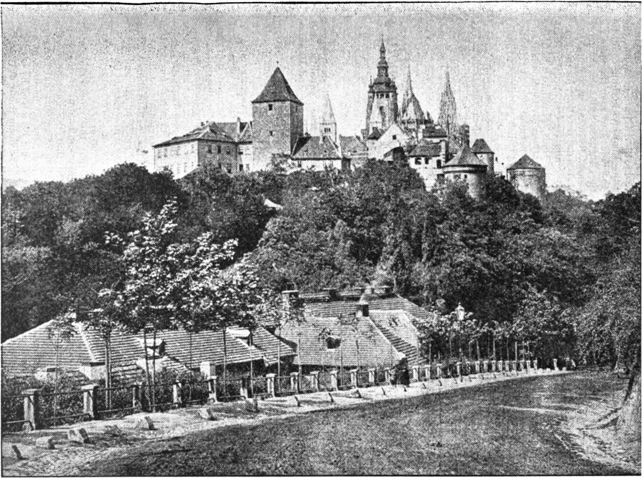 Royal Castle of Hradčany, Prague, in The Bohemian Review, volume 2, no. 4